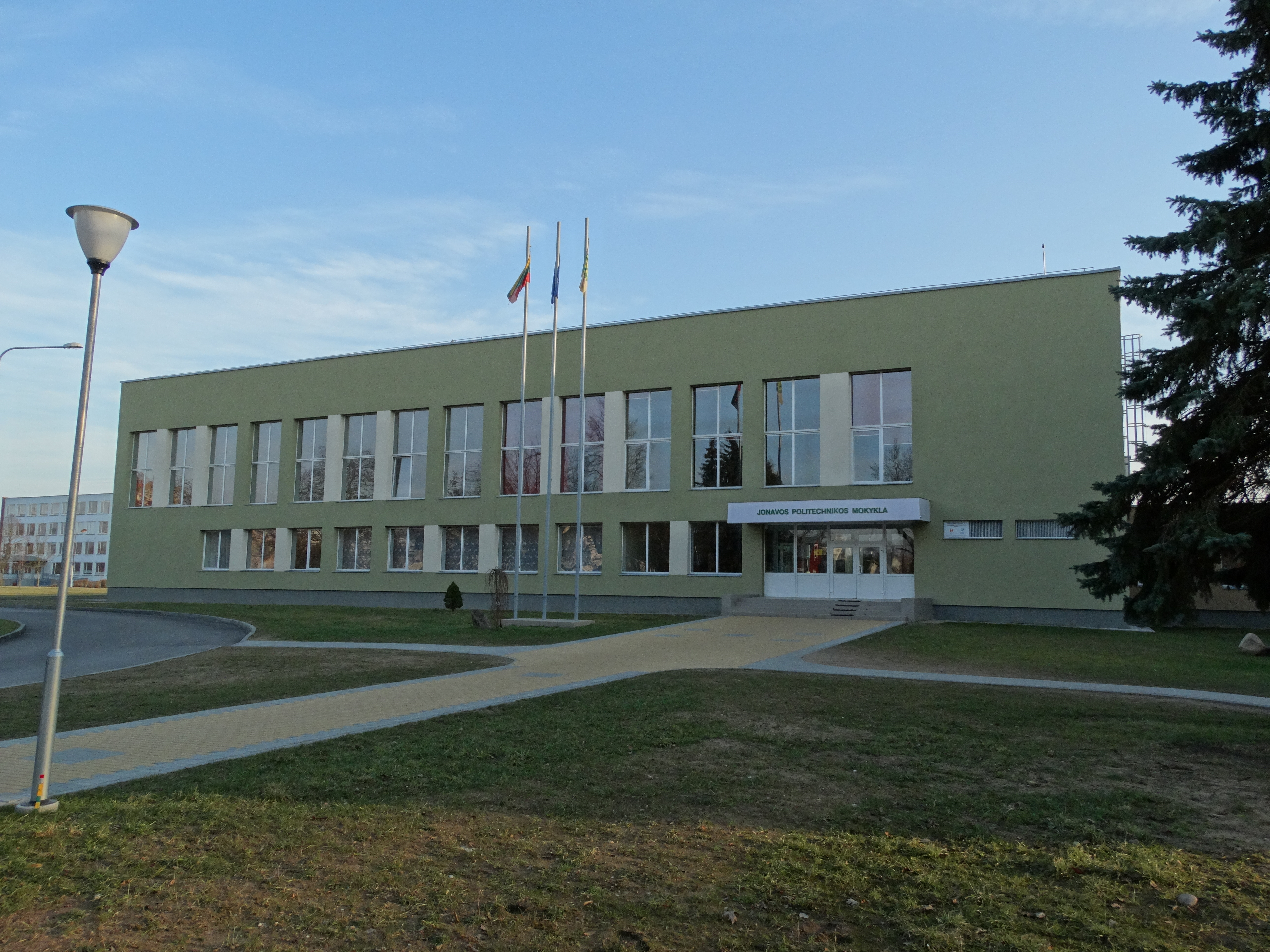 Polytechnic School, Jonava, Lithuania